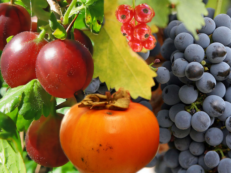 Made it myself